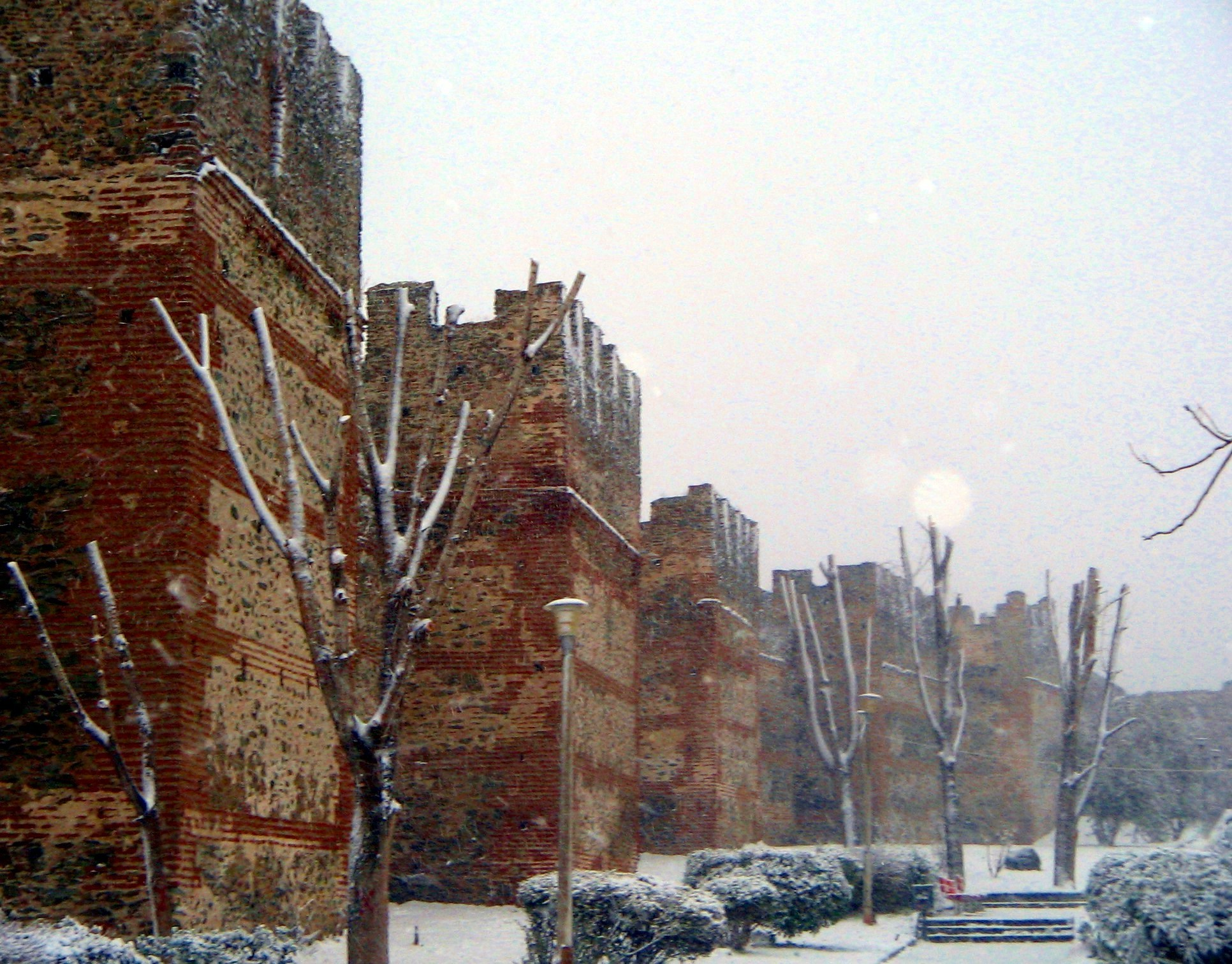 Thessaloniki City Walls - Ian 21:13, 12 September 2006 (UTC)